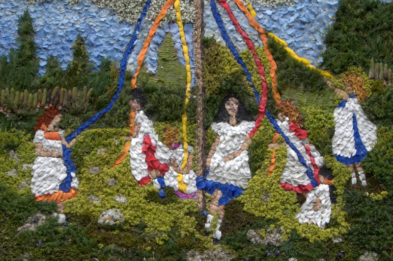 Well dressing at Hayfield in Derbyshire